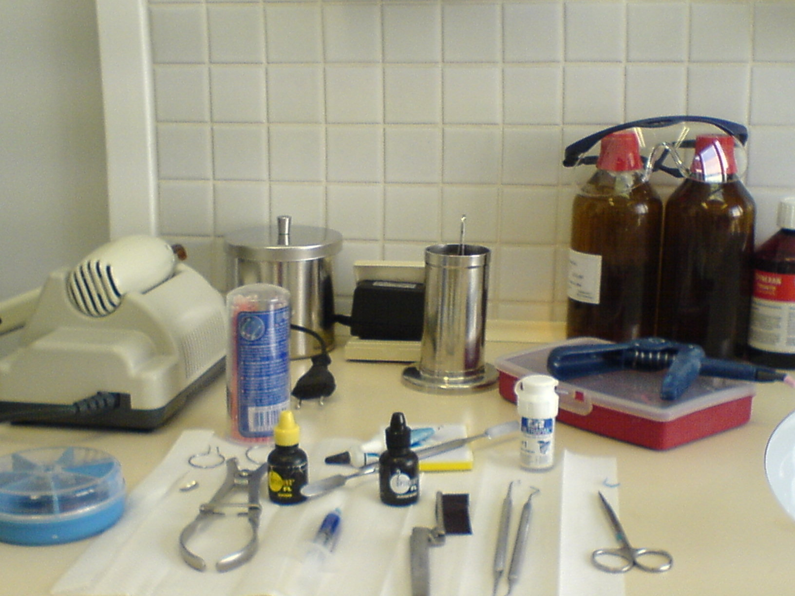 Dental composites